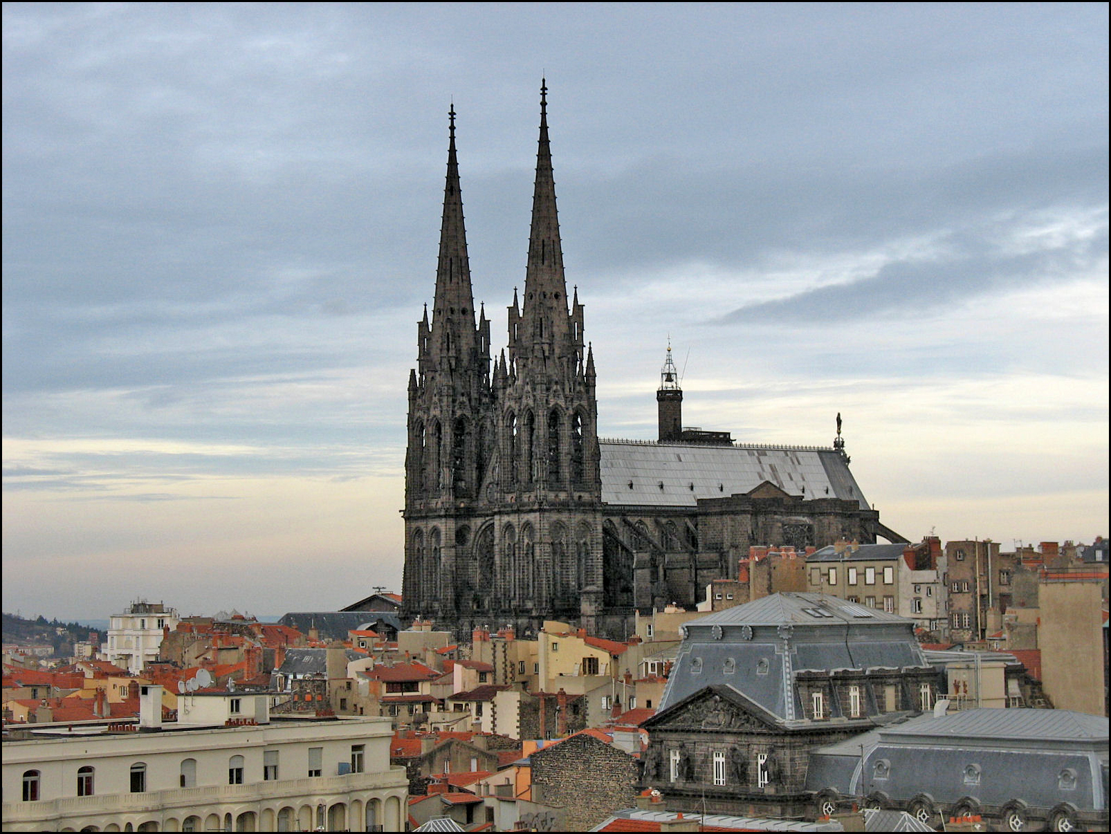 Clermont-Ferrand Cathedral, Gothic style, France